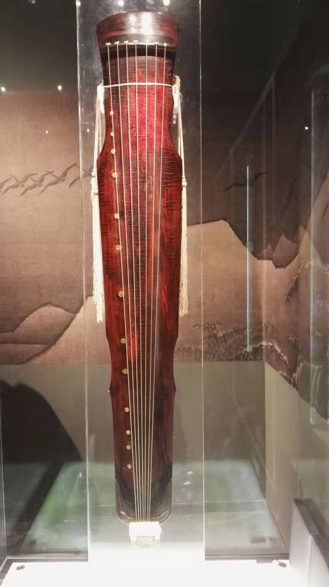 the front of guqin Dasheng Yiyin